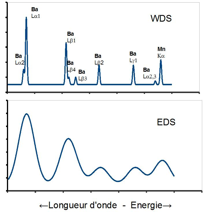 Comparison of a part of spectra of a glass obtained by Xray fluorescence analysis, respectively with EDS and WDS spectrometers